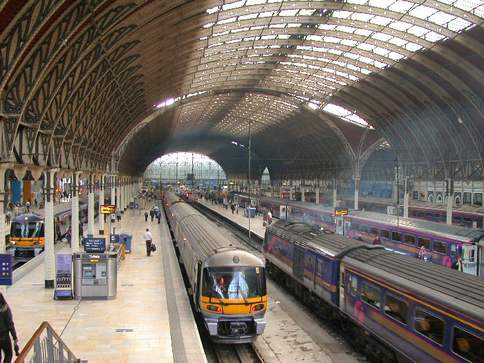 Central vault of London Paddington Station, October 2004.